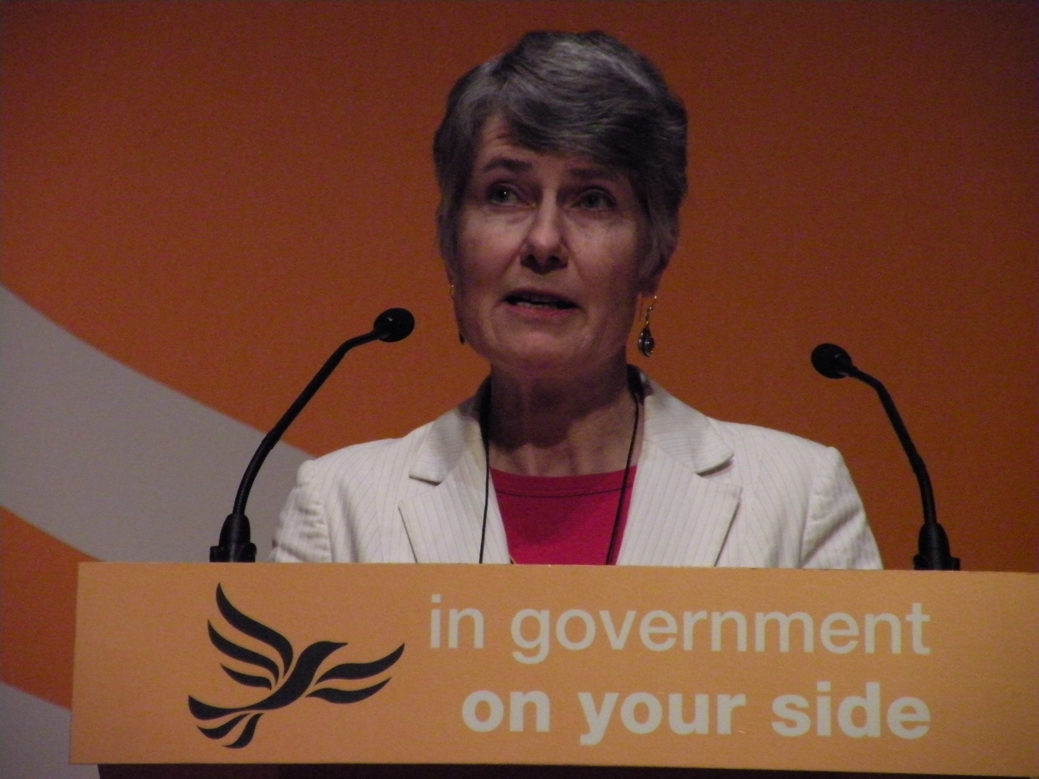 Fiona Hall MEP addressing a Liberal Democrat conference in the The Sage Gateshead